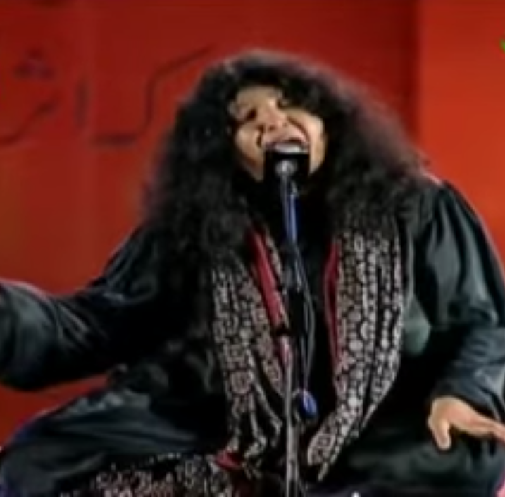 Abida Parveen in 2009